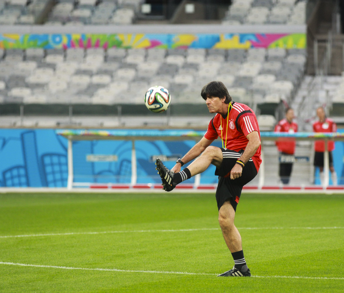 Coaching the German national team for one day before the semifinal game of the world championship in 2014 against Brazil 2014-07-07